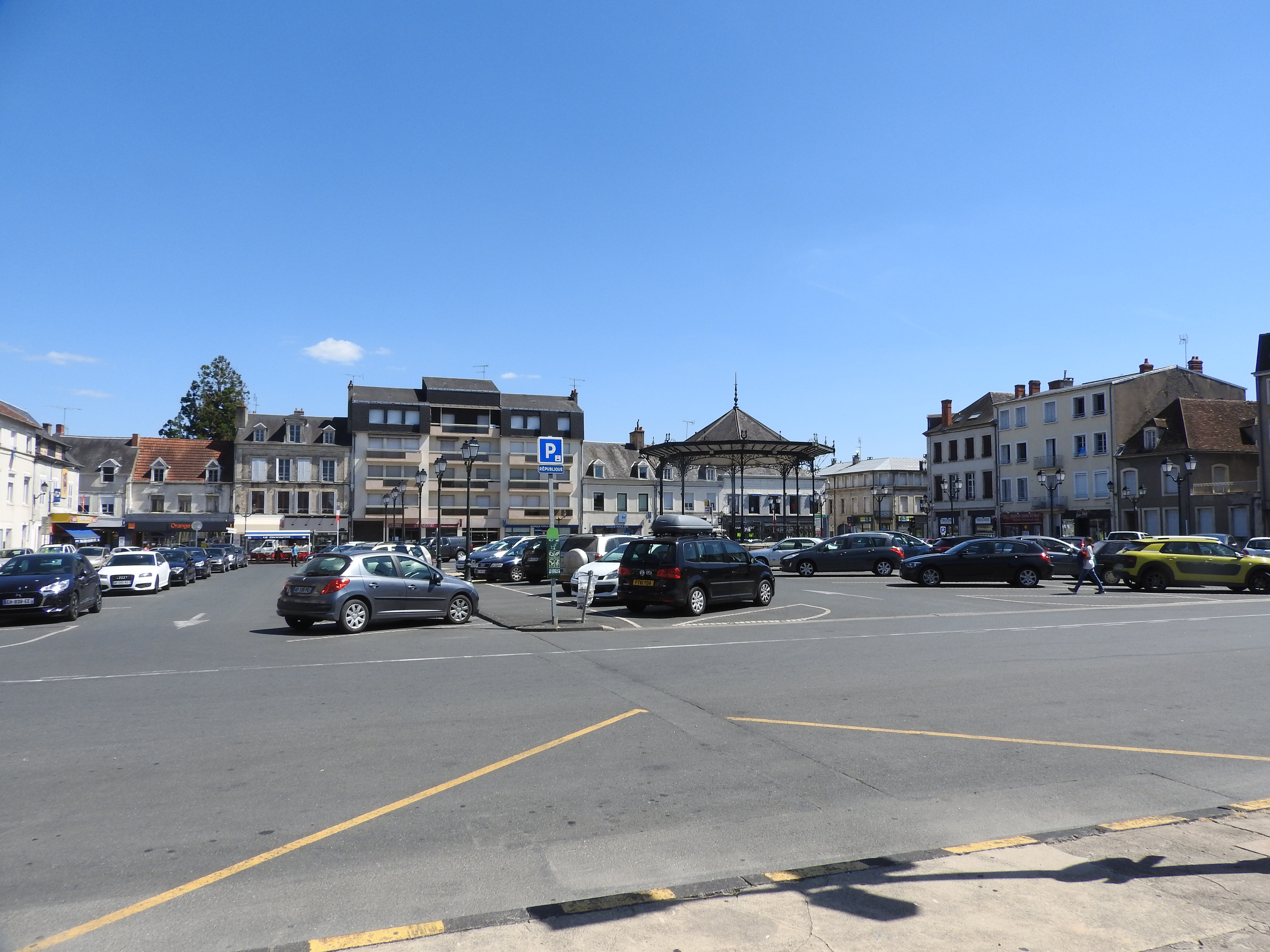 Saint-Amand-Montrond Place de la République